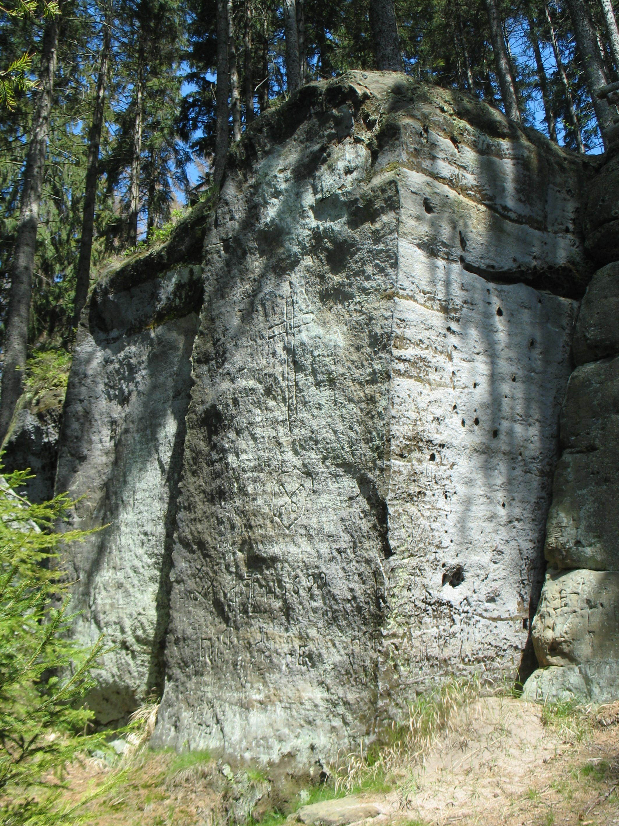 Waldstein (czech Lesní kámen, or Valdstejnská skála), rock in Lusatian Mountains